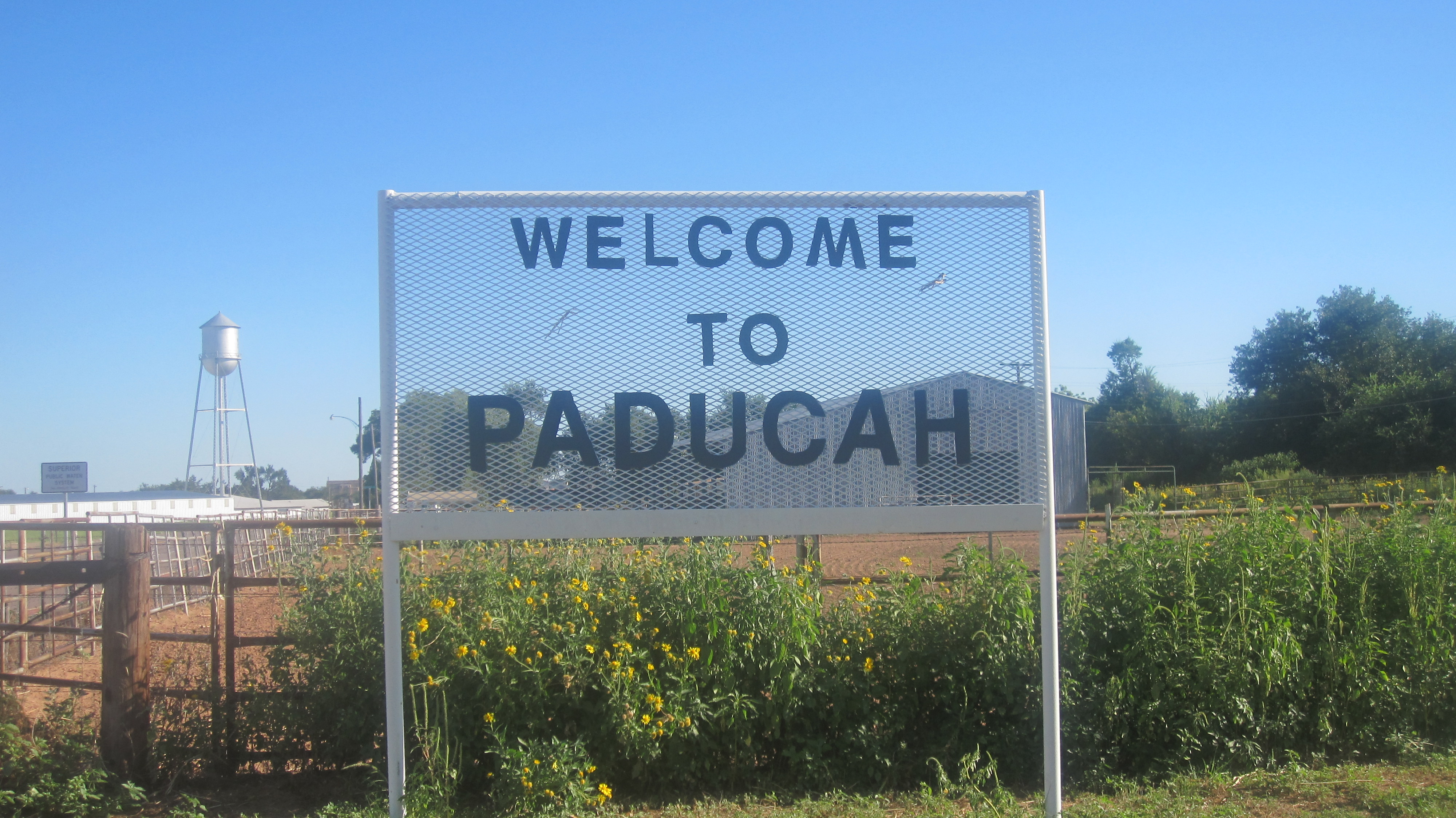 I took photo with Canon camera in Paducah, TX.